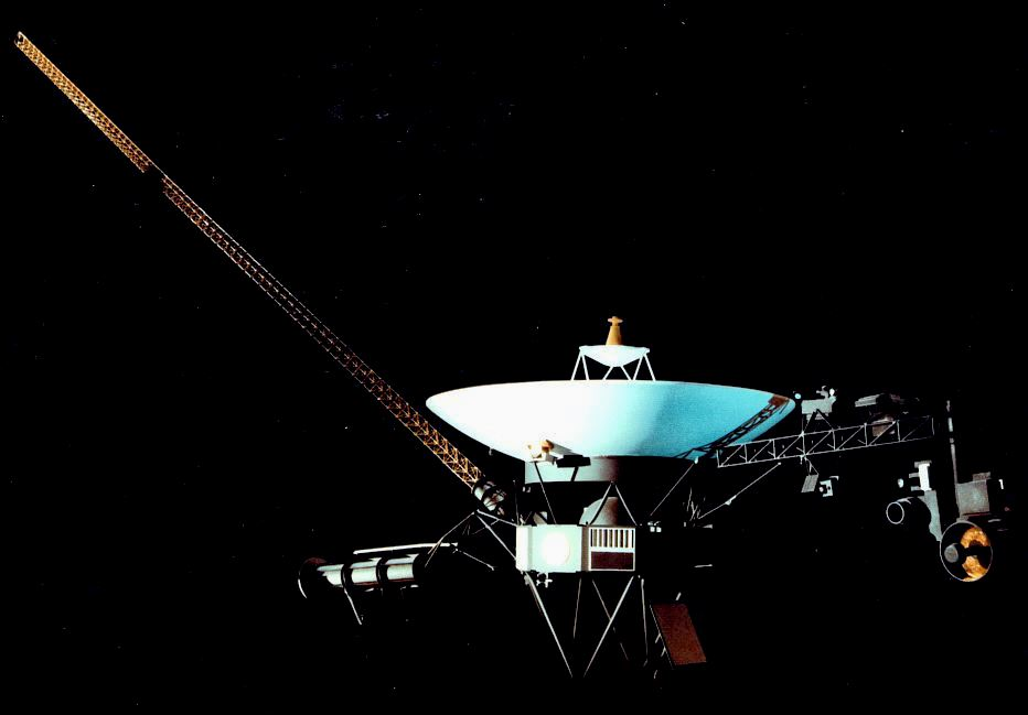 unmanned scientific probes Voyager